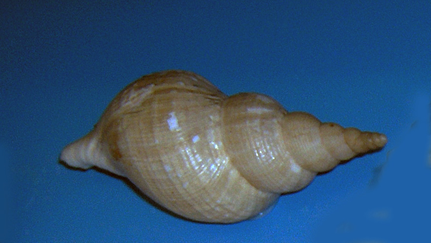 Beringius turtoni, a shell from the family Buccinidae